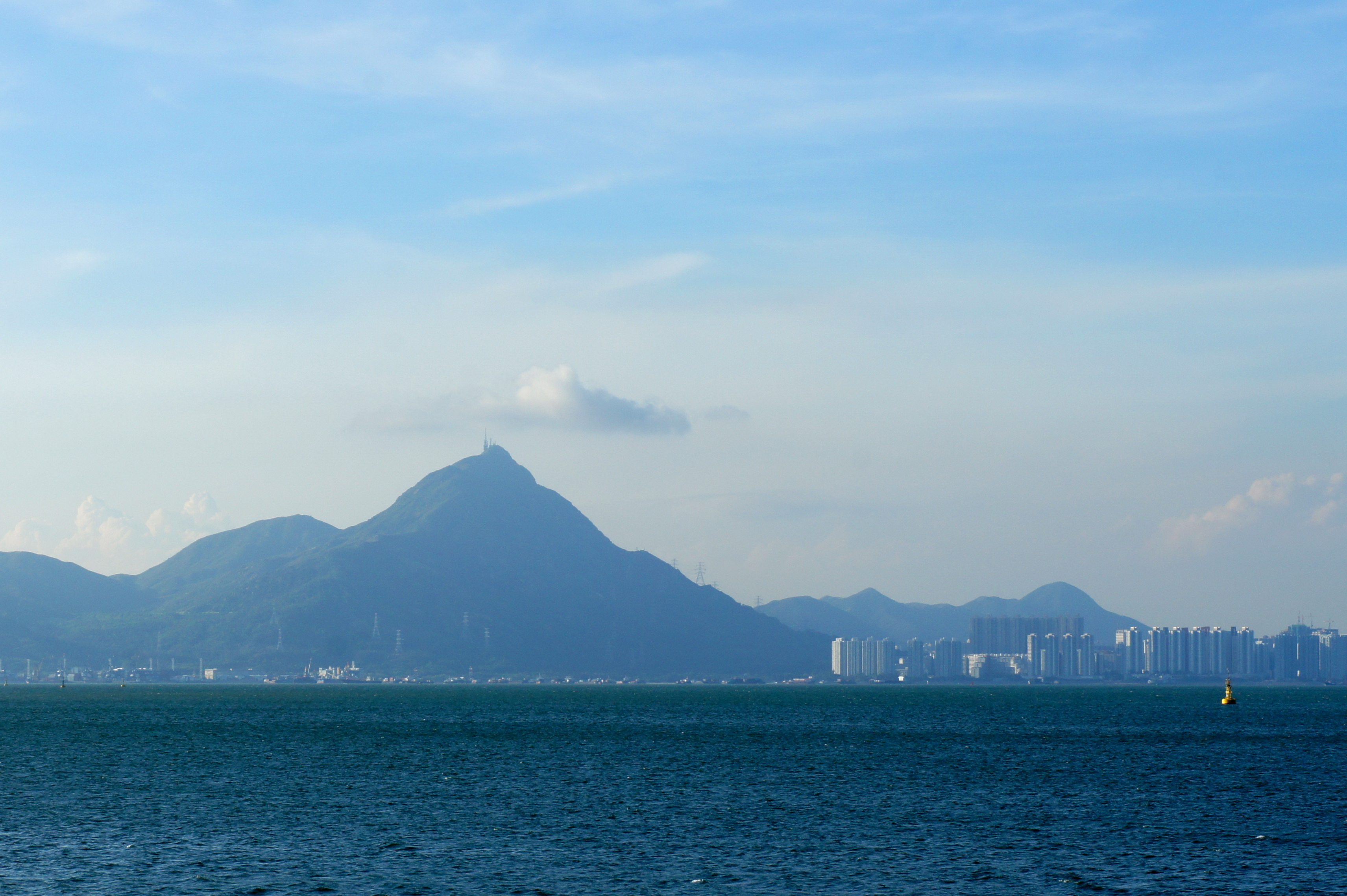 Castle Peak, a 583 m high peak in the western New Territories of Hong Kong. (Viewing from Tung Chung)